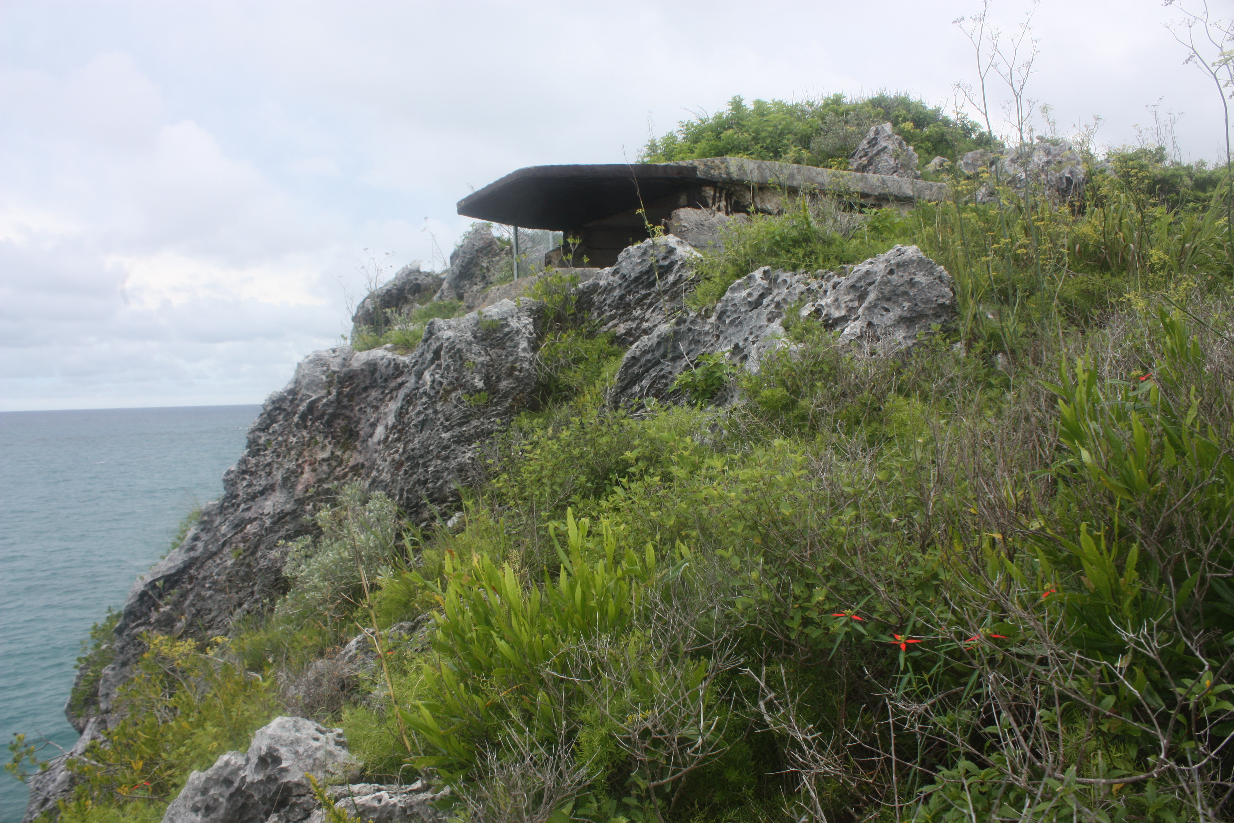 The building at St. David's Battery, on St. David's Island, Bermuda, that had housed the battery's range finder.